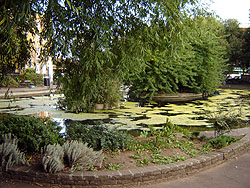 Clapton Ponds, Lower Clapton, London Borough of Hackney.